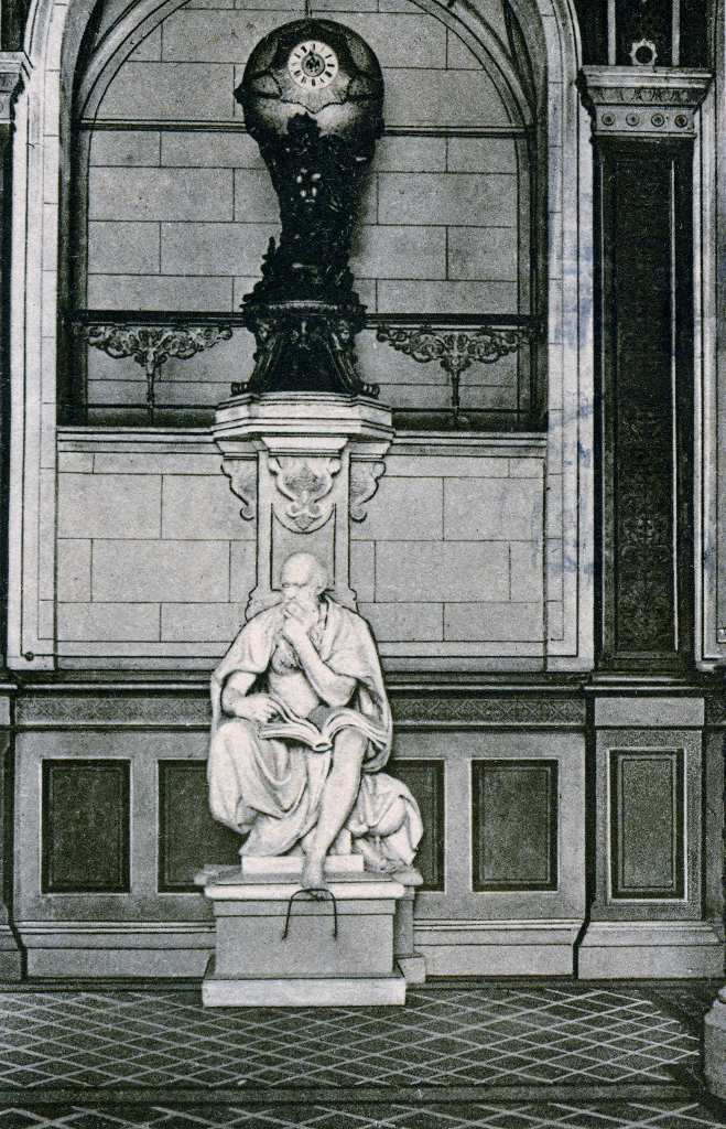 Sculpture of "Weisheit" (wisdom) in the University of Rostock, sculpted by Ludwig Brunow in 1890/93 as part of the memorioal to Duke Friedrich Franz II. in Schwerin, destroyed